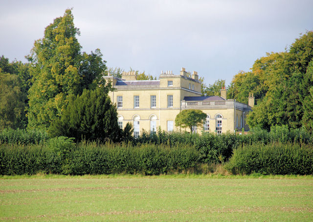 Worthy Park 1820s house by Robert Smirke. Seen from the Itchen Way, with a little zoom.